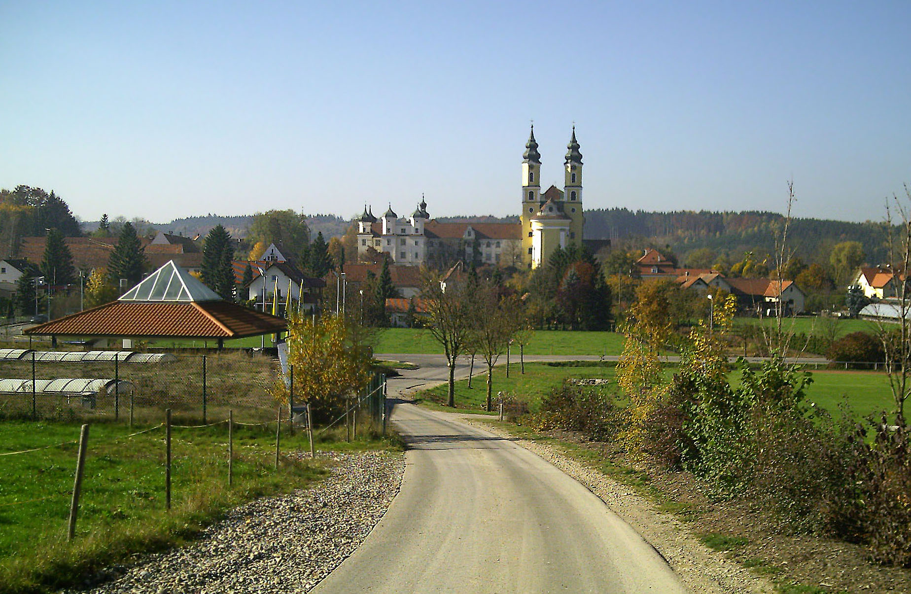 Cropped version of File:RotadRot.jpg to eliminate watermark. Sharpened center of photo